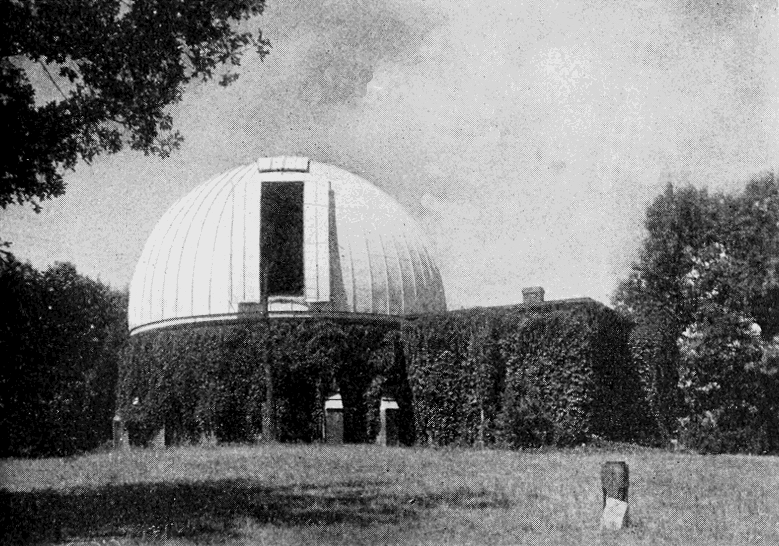 The Leander McCormick observatory